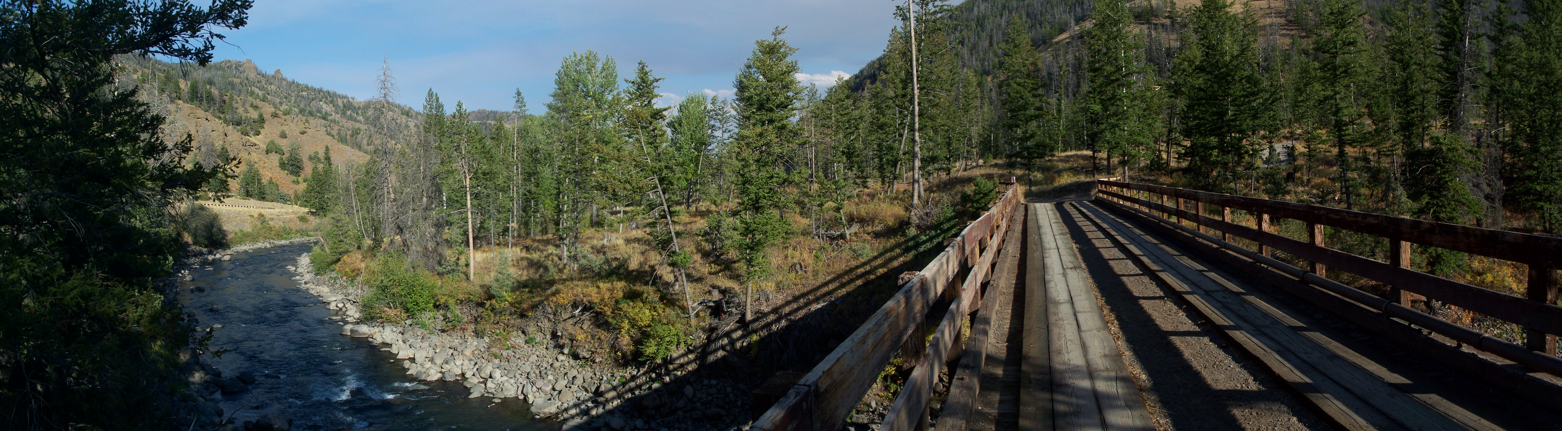 Panoramic view of the bridge taking you to the Boy Scout Camp, Camp Buffalo Bill, between Cody, Wyoming and East Entrance of Yellowstone